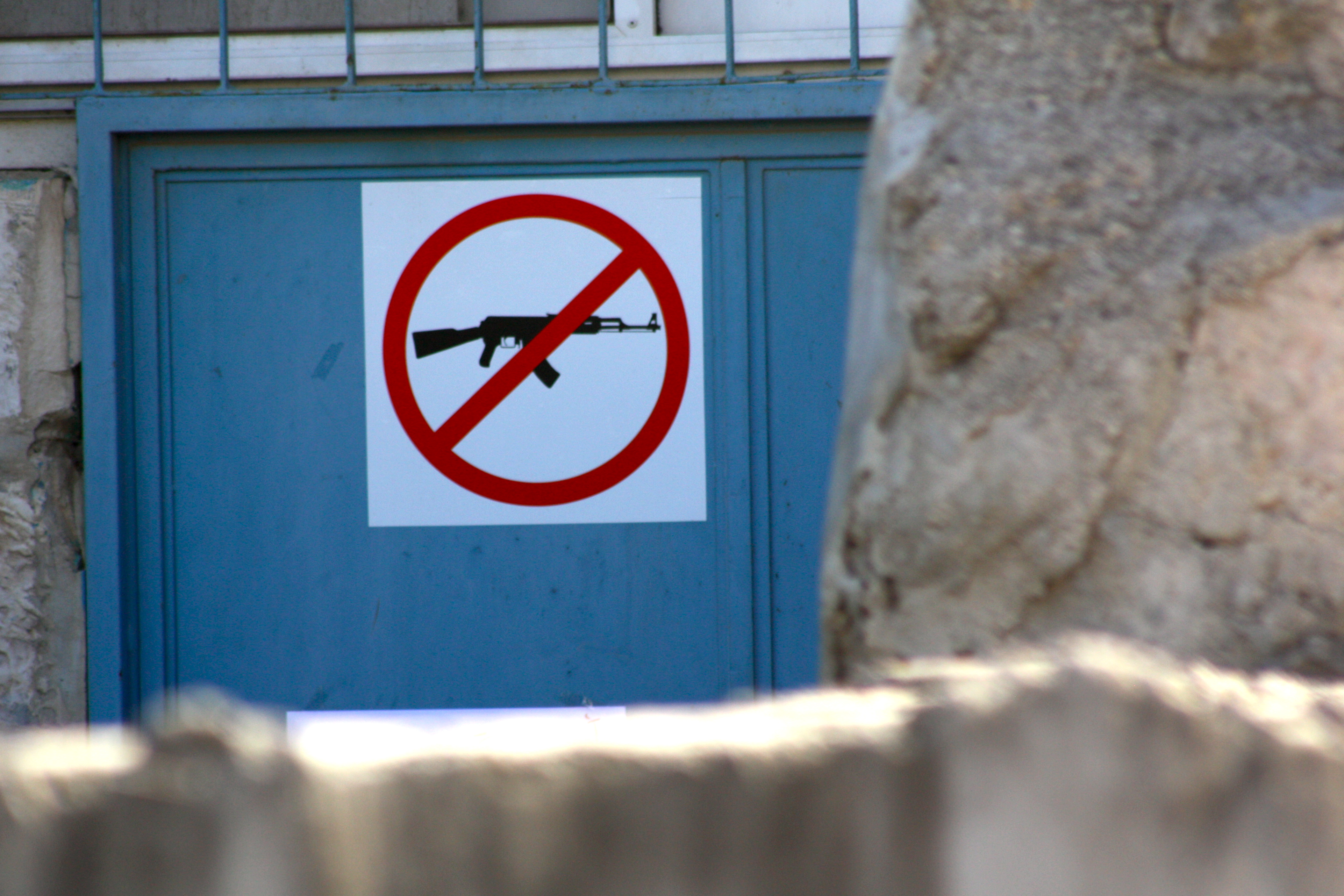 Israel - Jerusalem - Derech HaOfel - 01 - "No weapons" signs on the door of UNRWA building (United Nations Relief and Works Agency for Palestine Refugees in the Near East). Israel